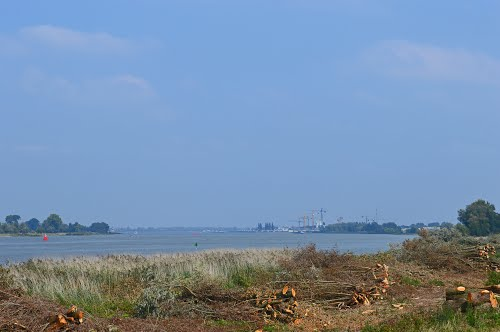 River Nieuwe Merwede, with port of Werkendam in the background